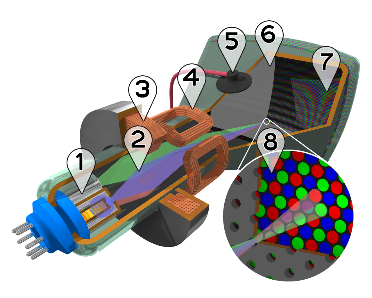 Illustration showing the interior of a cathode-ray tube for color televisions and monitors.